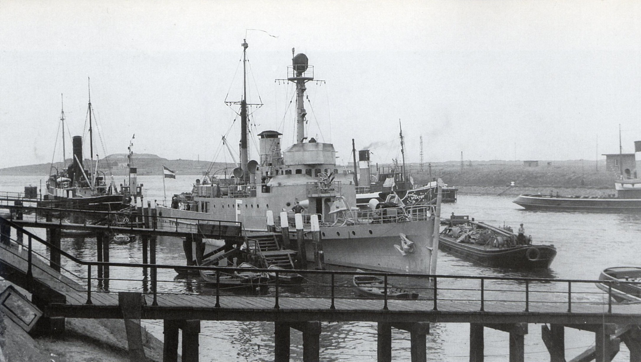 Dutch Jan van Amstel class minesweeper Pieter Florisz at the port of IJmuiden